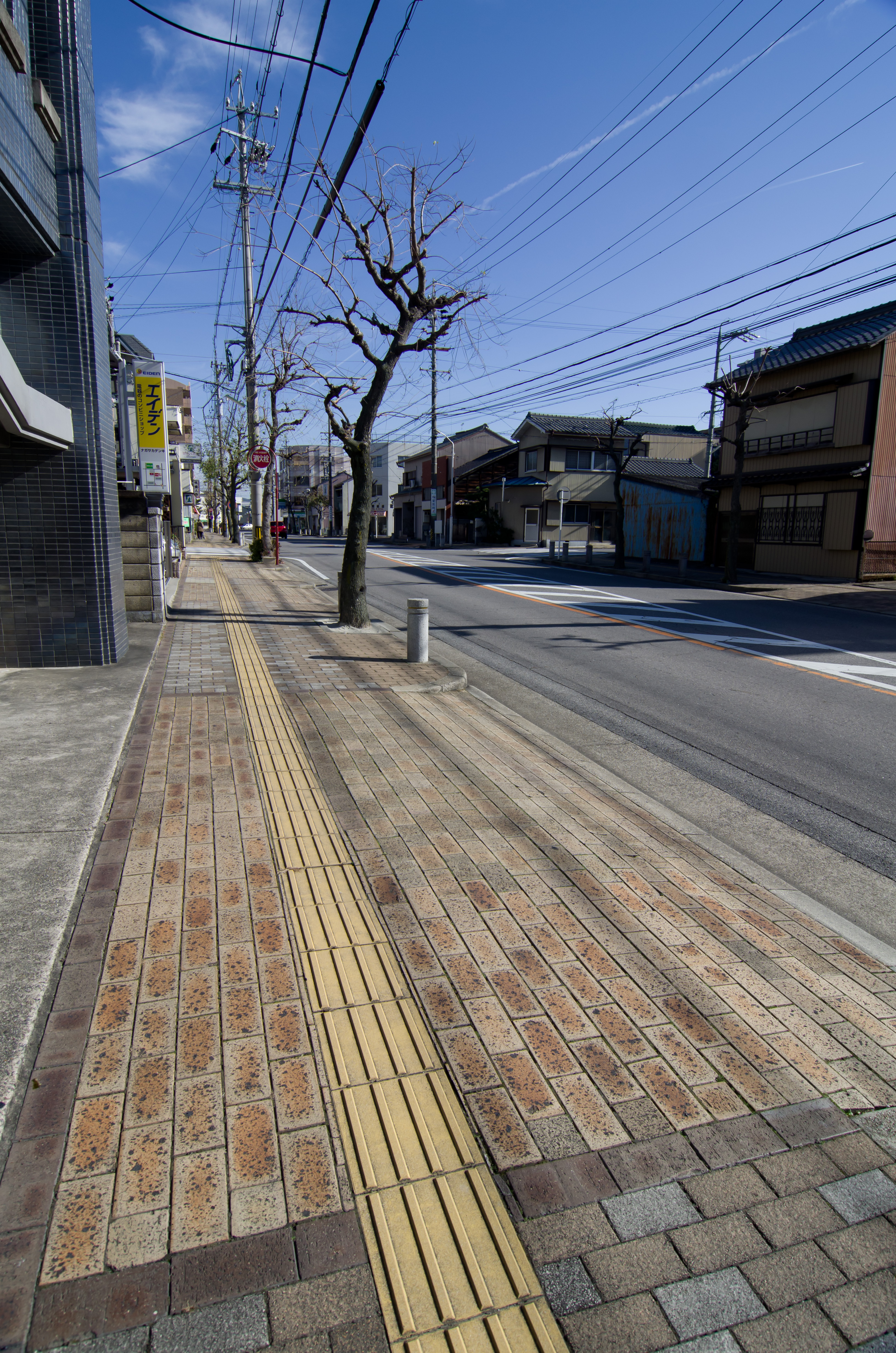 Kimachi-dori St. in Okazaki, Aichi, Japan